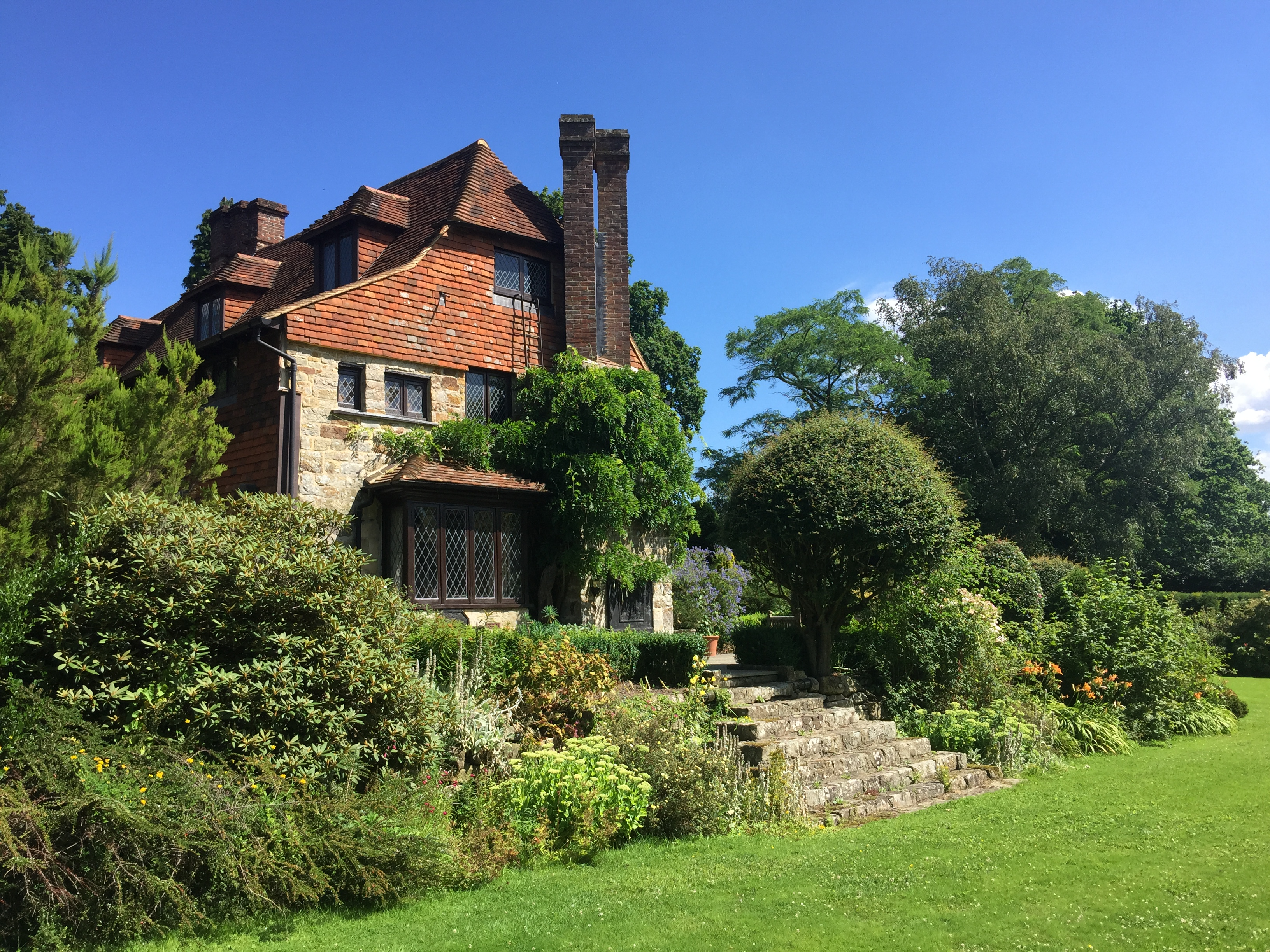 Photo of the South Elevation of the house, as featured on the Van Der Graaf Generator album, Pawn Hearts.